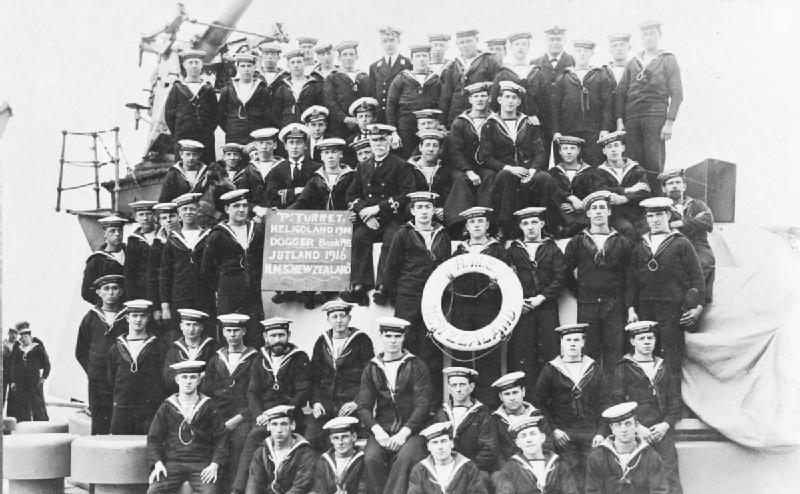 From IWM caption : The gun crew of "P" turret of the battlecruiser HMS NEW ZEALAND posing for a group portrait after the Battle of Jutland. There is a sign in the middle of the group saying: "P" Turret, Heligoland 1914, Dogger Bank 1915, Jutland 1916.